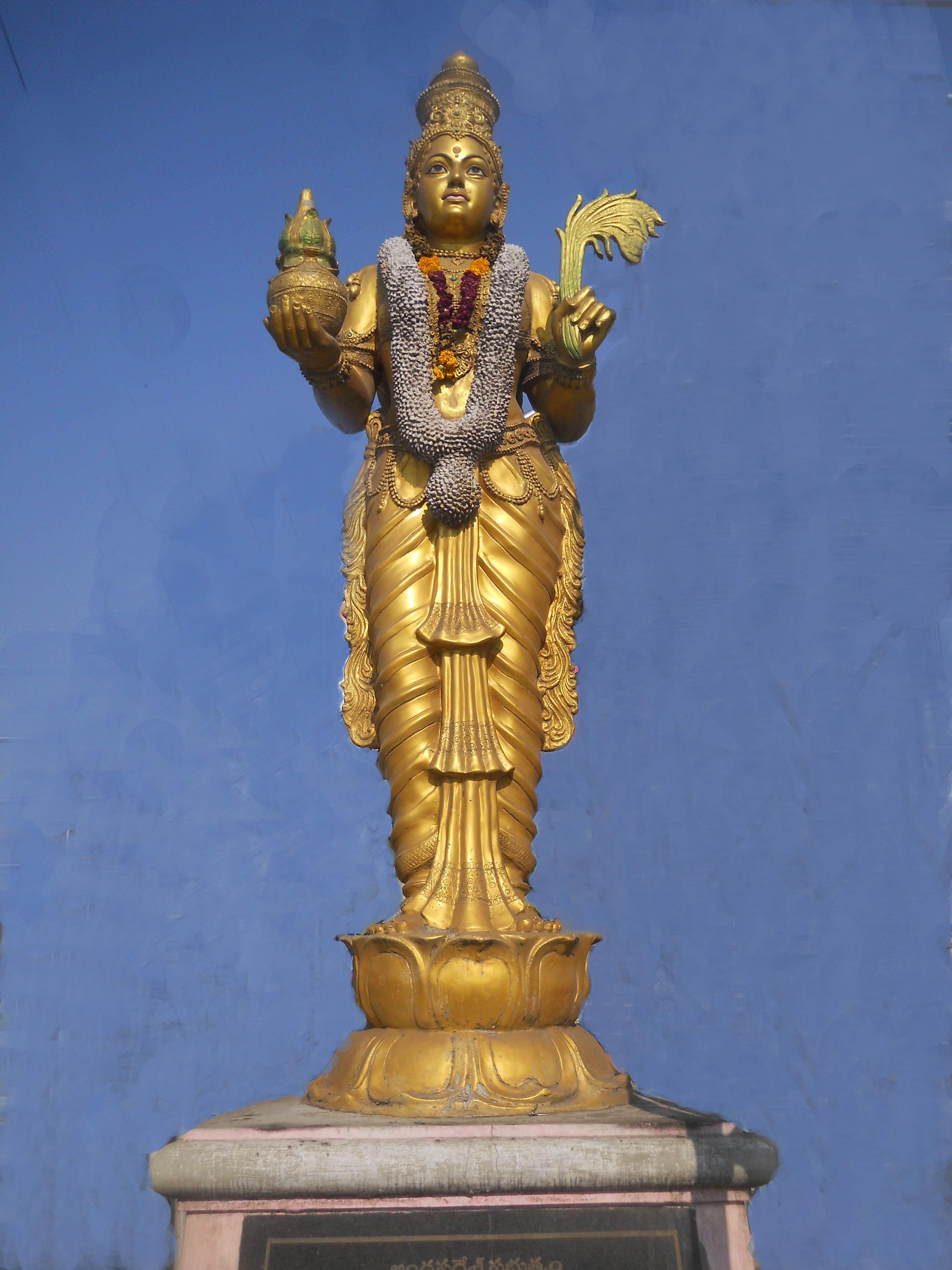 statue of telugu talli tirupati